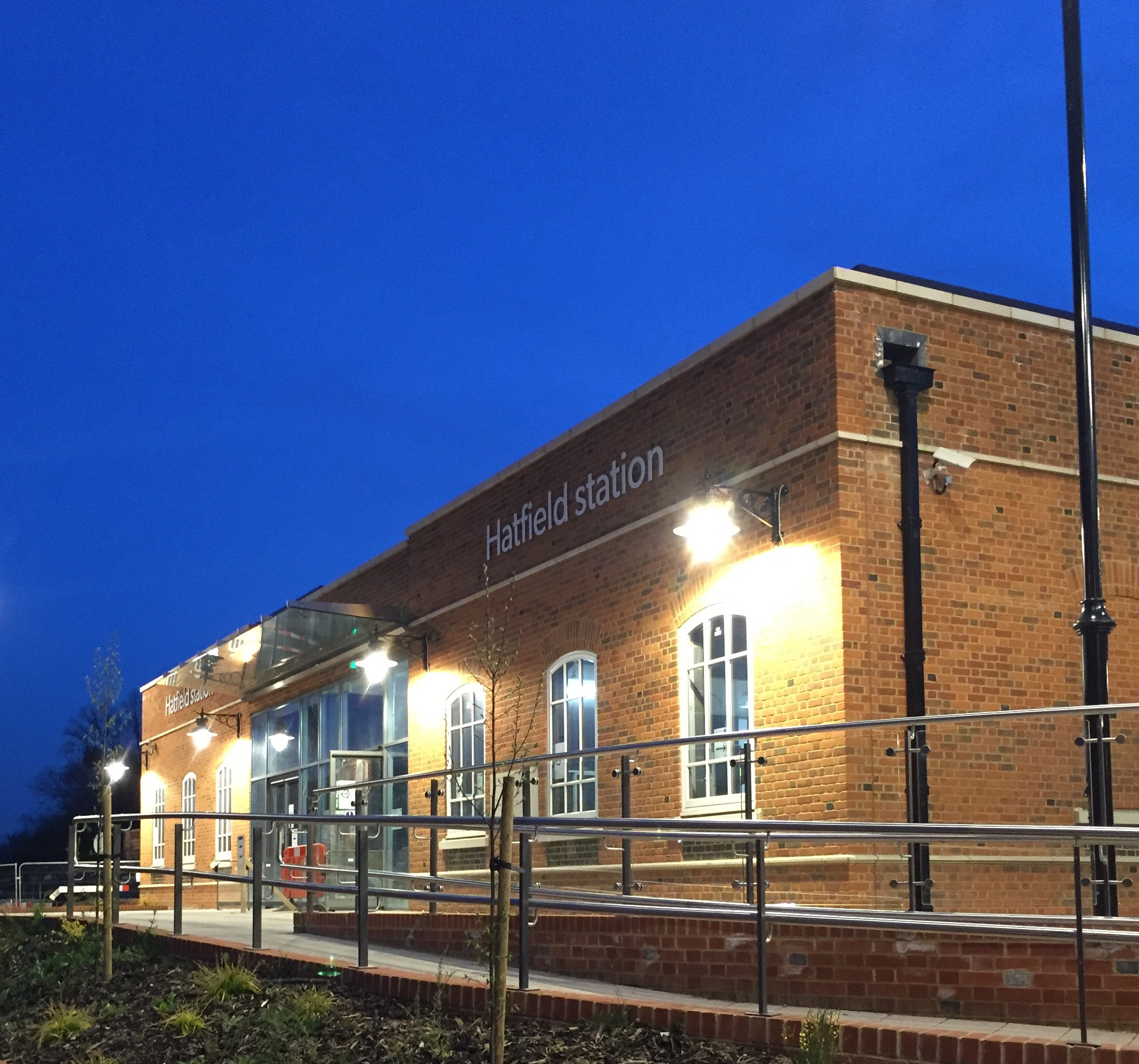 The nearly finished new entrance to Hatfield station at night